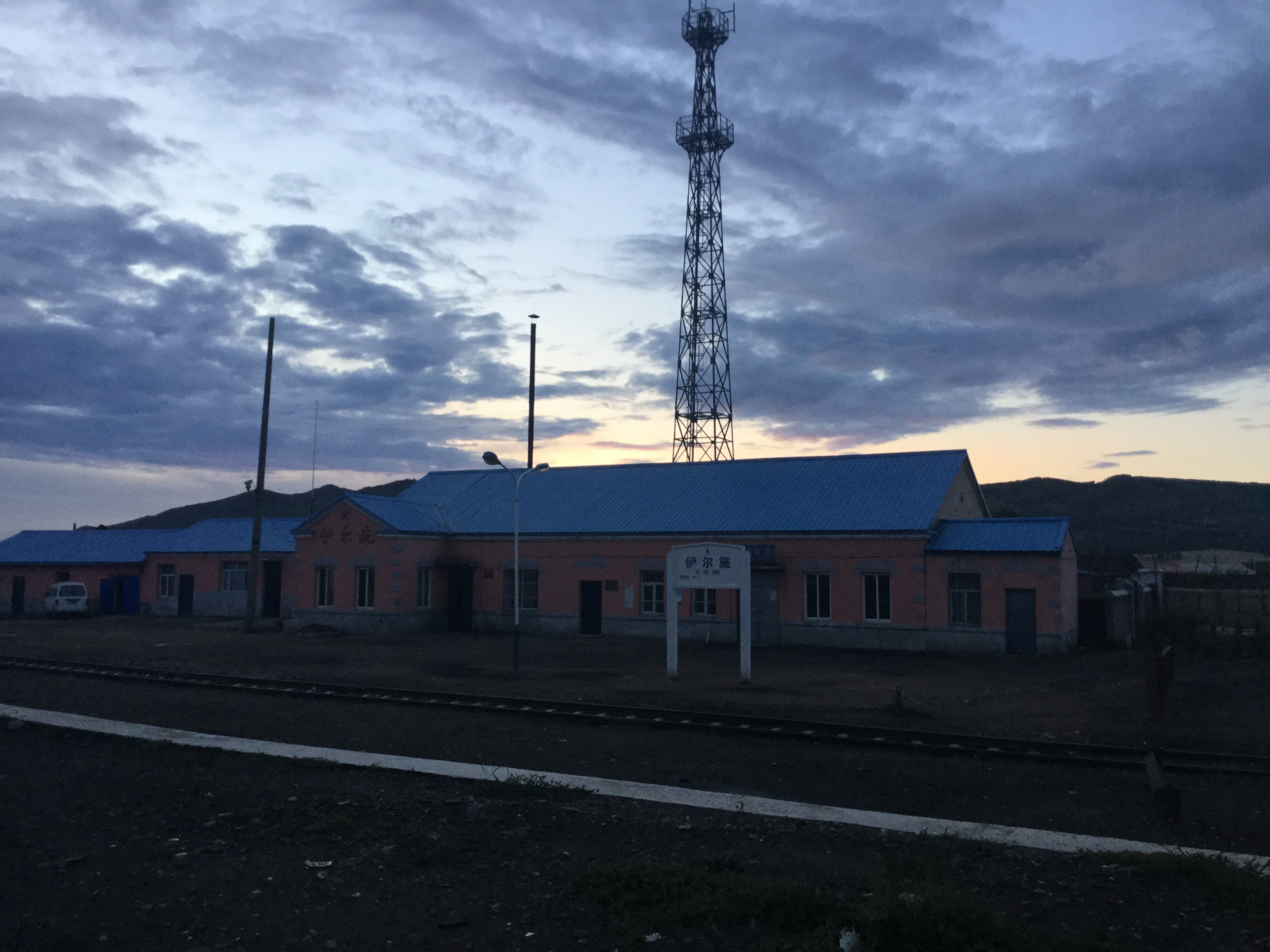 Yiershi railway station. Also spell "Irbes station" according to Mongolian (the traditional script spelling is "Irbis").